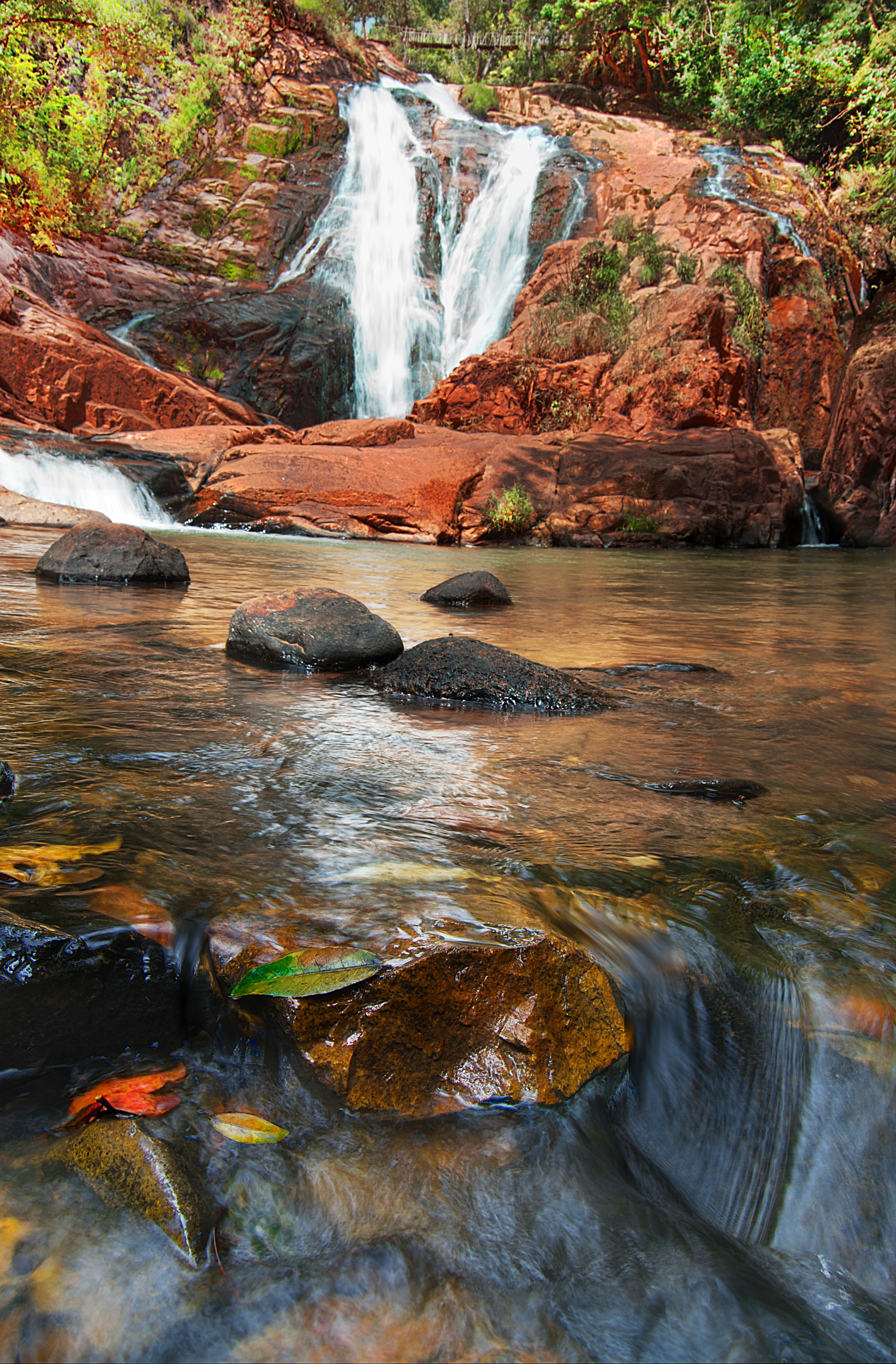 Hang Cop Waterfall